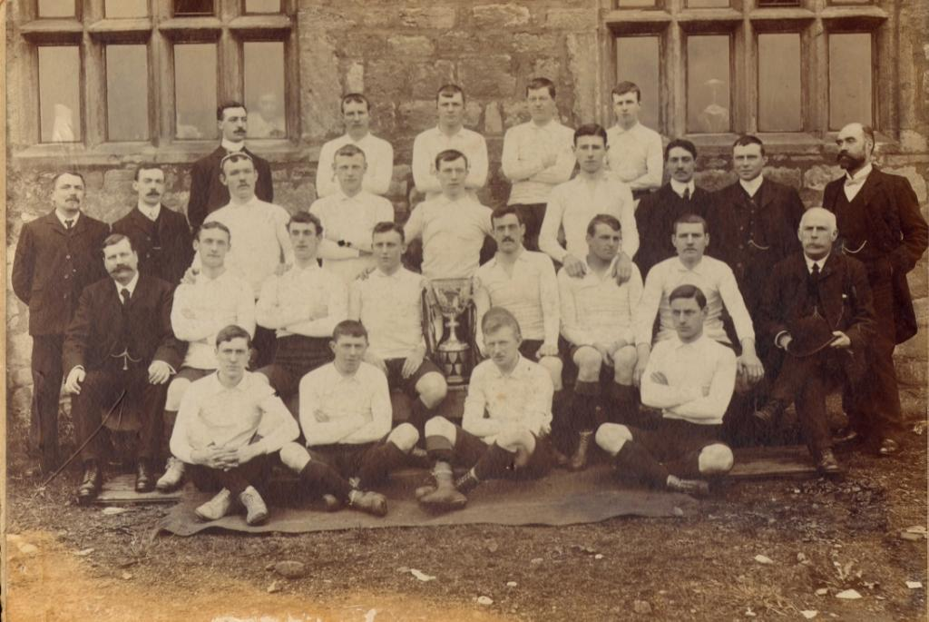 Hartlepool Rovers rugby football teams. Cup league 1906 - 1907. HAPMG : 1982.36.6 Images from Hartlepool Cultural Services that are part of The Commons on Flickr are labeled 'no known copyright restrictions' indicating that Hartlepool Cultural Services is unaware of any current copyright restrictions on these images either because the copyright is waived or the term of copyright has expired. Commercial use of images is not permitted. Applications for commercial use or for higher quality reproductions should be made to Hartlepool Cultural Services, Sir William Gray House, Clarence Road, Hartlepool, TS24 8BT. When using the images please credit 'Hartlepool Cultural Services'.